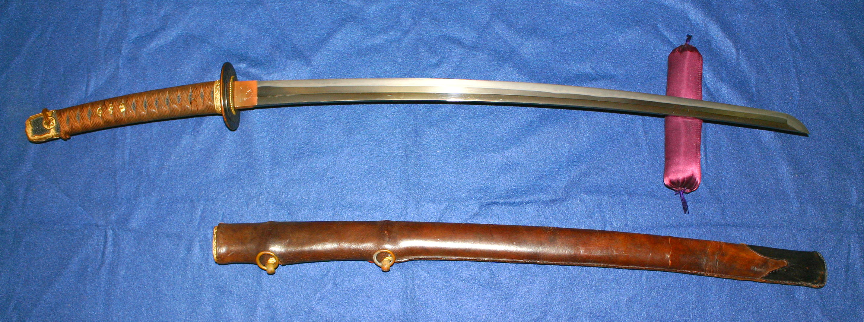 Please help improve this translation chrysanthemum watermarks Minatogawa Shrine Zhengzhong の Cun え. Showa twelve years to develop the sea standard saber の exterior. The sheath を protection su ru ku the leather cover い が the payment is for に wild 戦. You can contribute by translating this description into more languages.